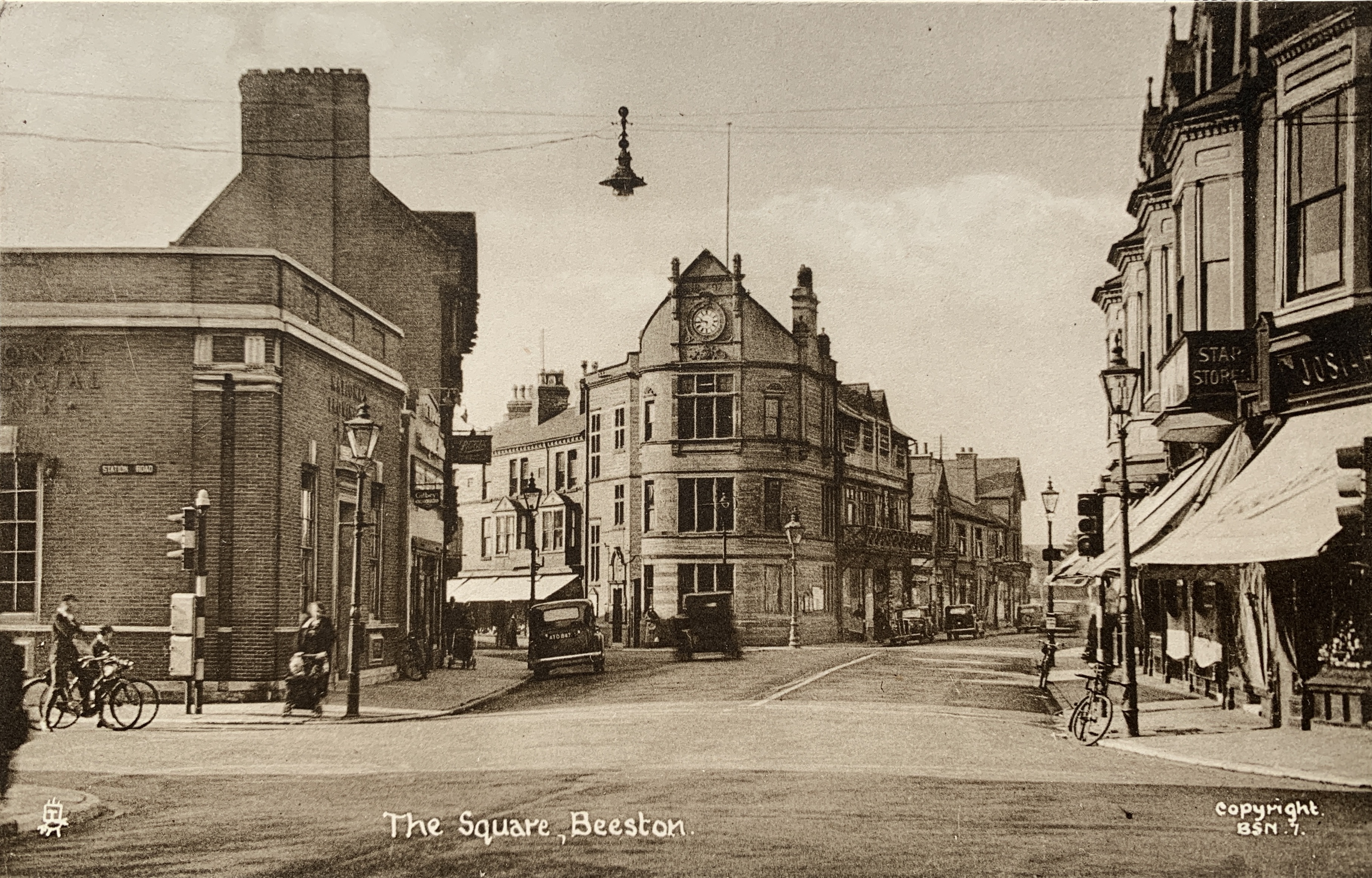 The Square, Beeston ca. 1930